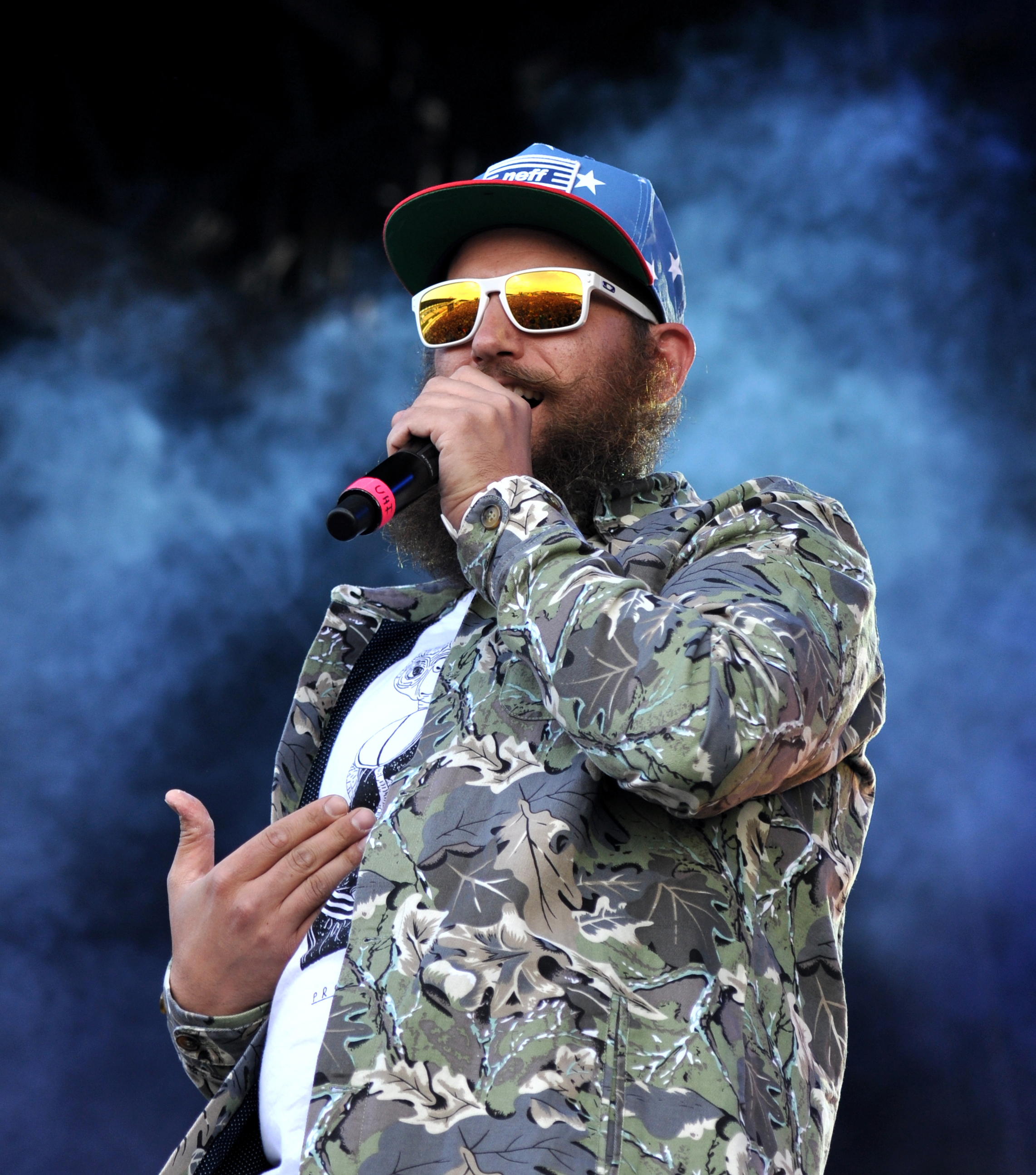 MC Fitti at Rock am Ring 2013